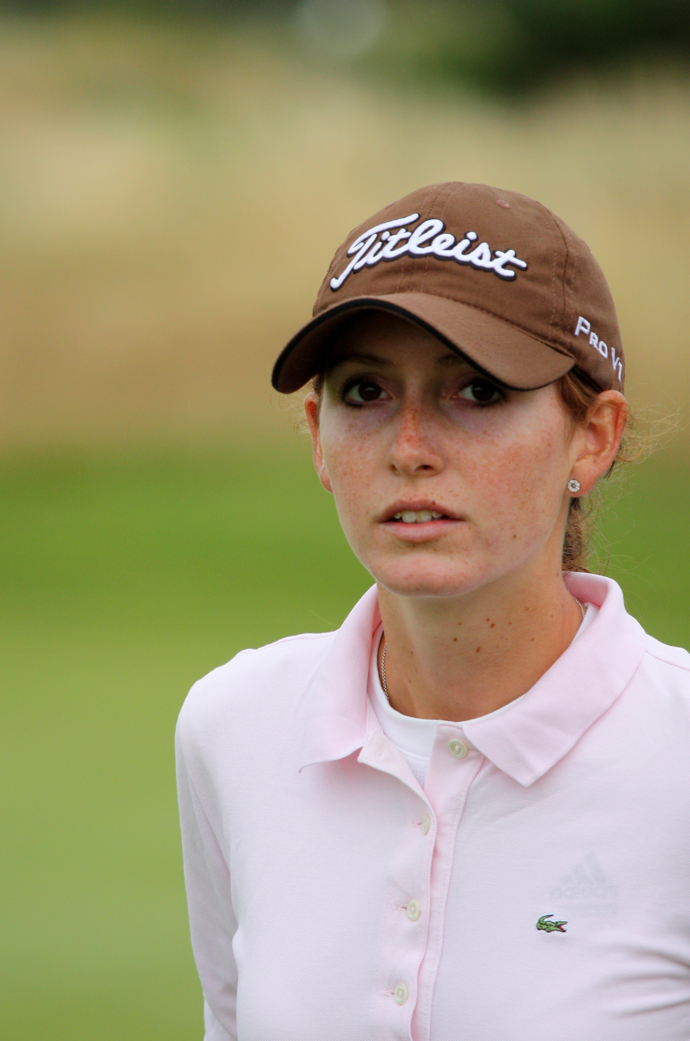 LYTHAM ST ANNES, UNITED KINGDOM - JULY 29: Florentyna Parker of England walks off the 15th green during third practice round before 2009 Ricoh Women's British Open held at Royal Lytham & St Annes on July 29, 2009 in Lytham St Annes, England. (Photo by Wojciech Migda)